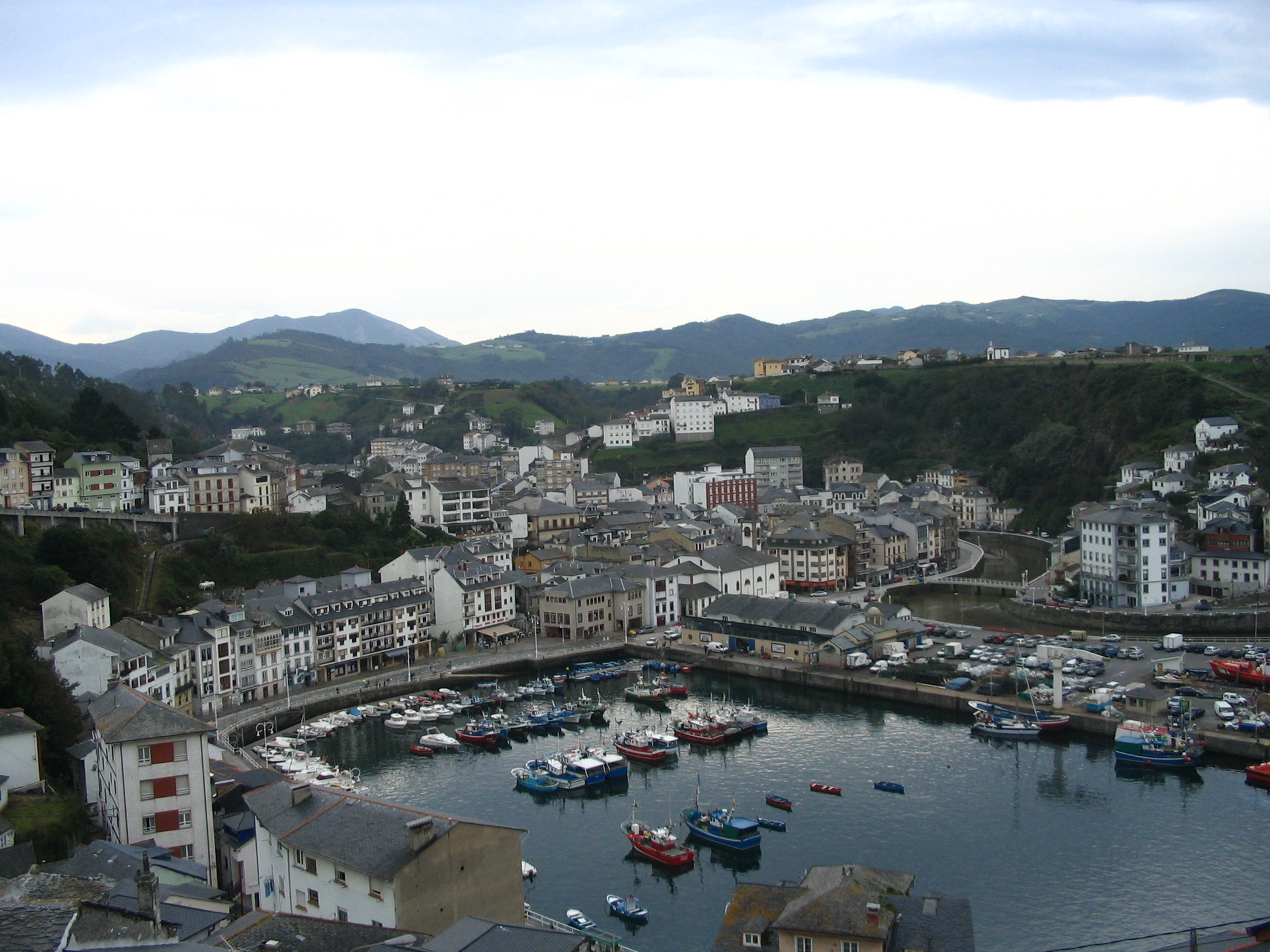 Luarca in Asturies, Spain